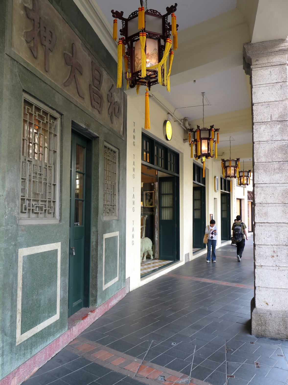 Wo Cheong Pawn